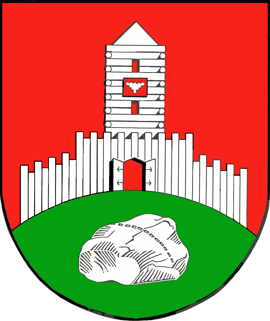 Coat of arms of the municipality Tensbüttel-Röst in Schleswig-Holstein, Germany.